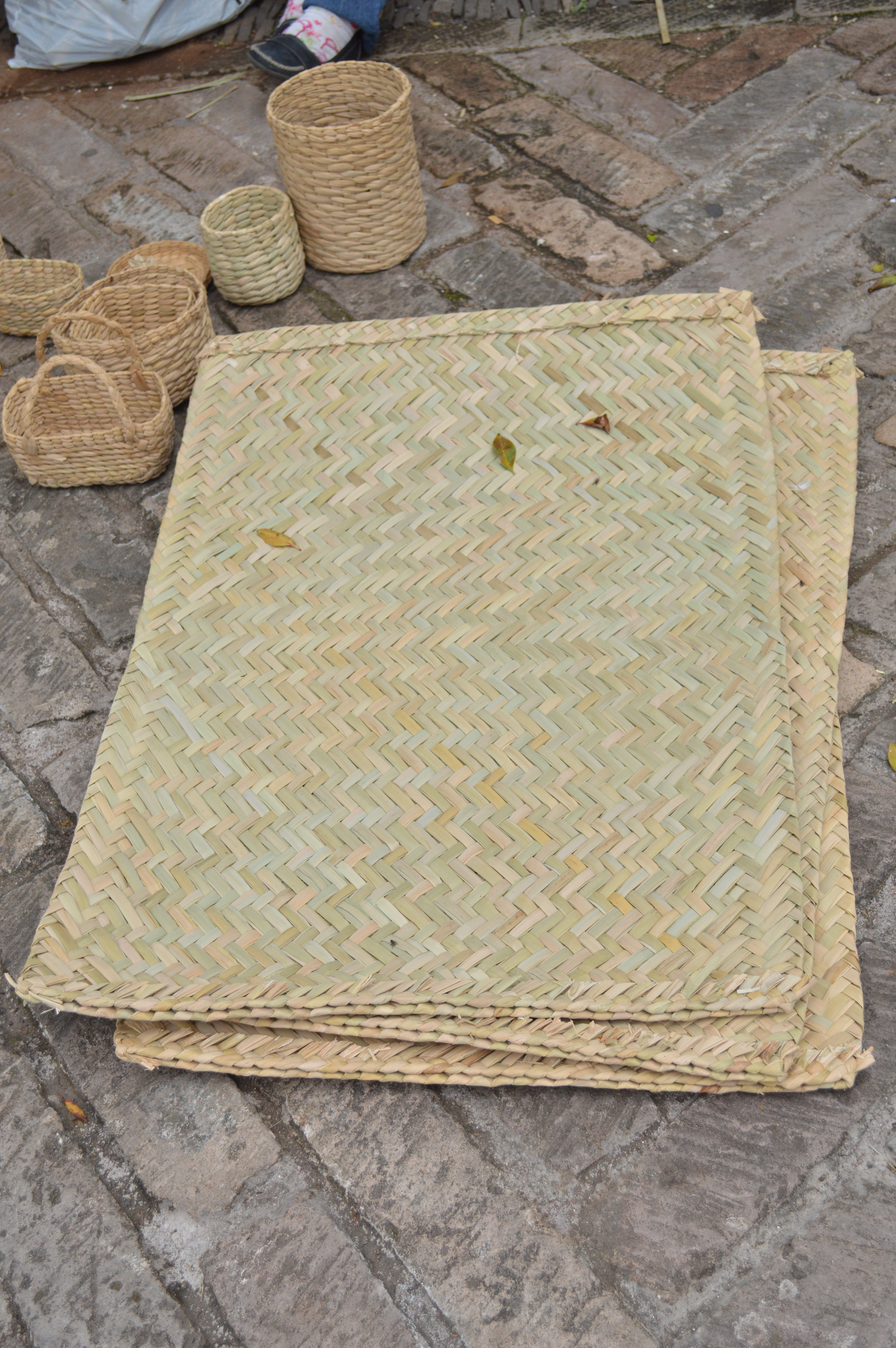 Petate mats for sale in Cuitzeo, Michoacán, Mexico